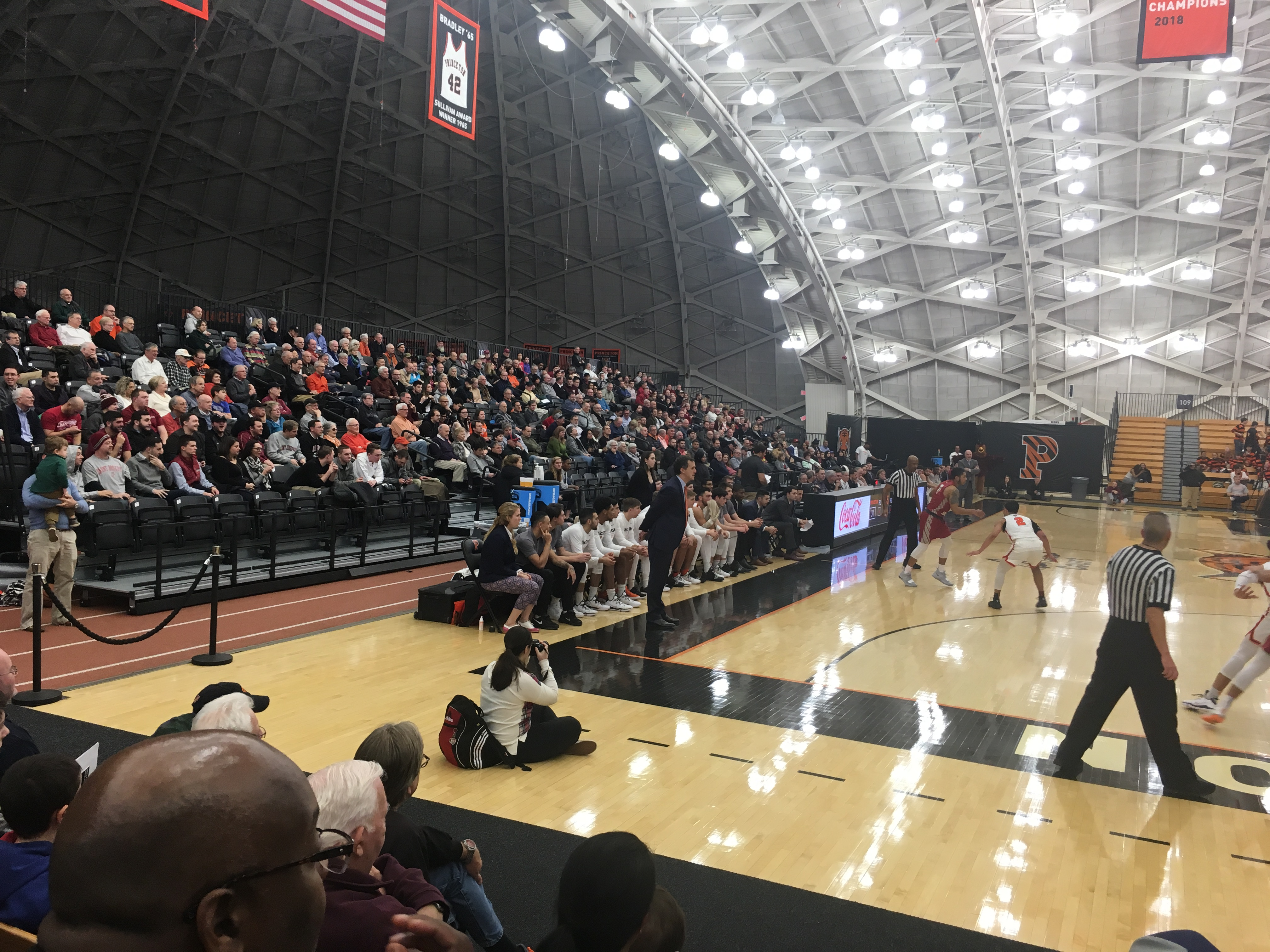 First-half action during a men's basketball game between the Saint Joseph's University Hawks (red) and the Princeton University Tigers (white) at Princeton's Jadwin Gymnasium. St. Joe's Lamarr Kimble can be seen in action against Princeton's Jose Morales. In the background, to the left of the large 'P', the St. Joseph's Hawk mascot can be seen in mid-flap of its wings.